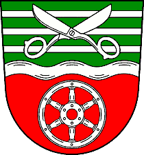 Coat of Arms of Leidersbach